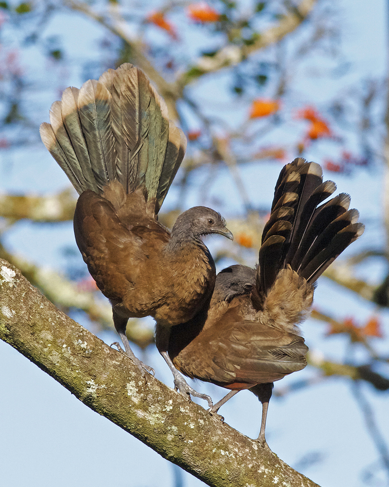 Gray-headed Chachalaca photo taken at Rancho Naturalista, Costa Rica.